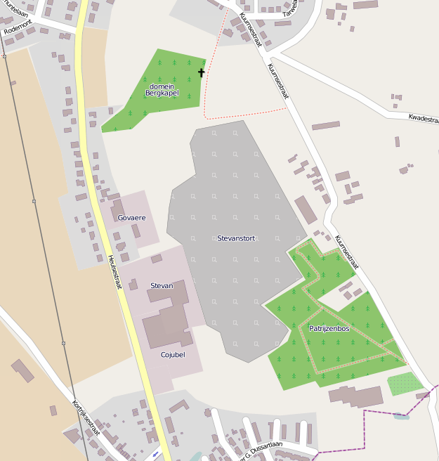 Location of the Stevan dumping site in Lendelede